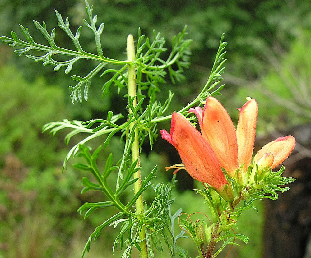 Known as Flor de Arete in its native range of Mexico and Guatemala. Photo from near Oaxaca, Mexico. In context at